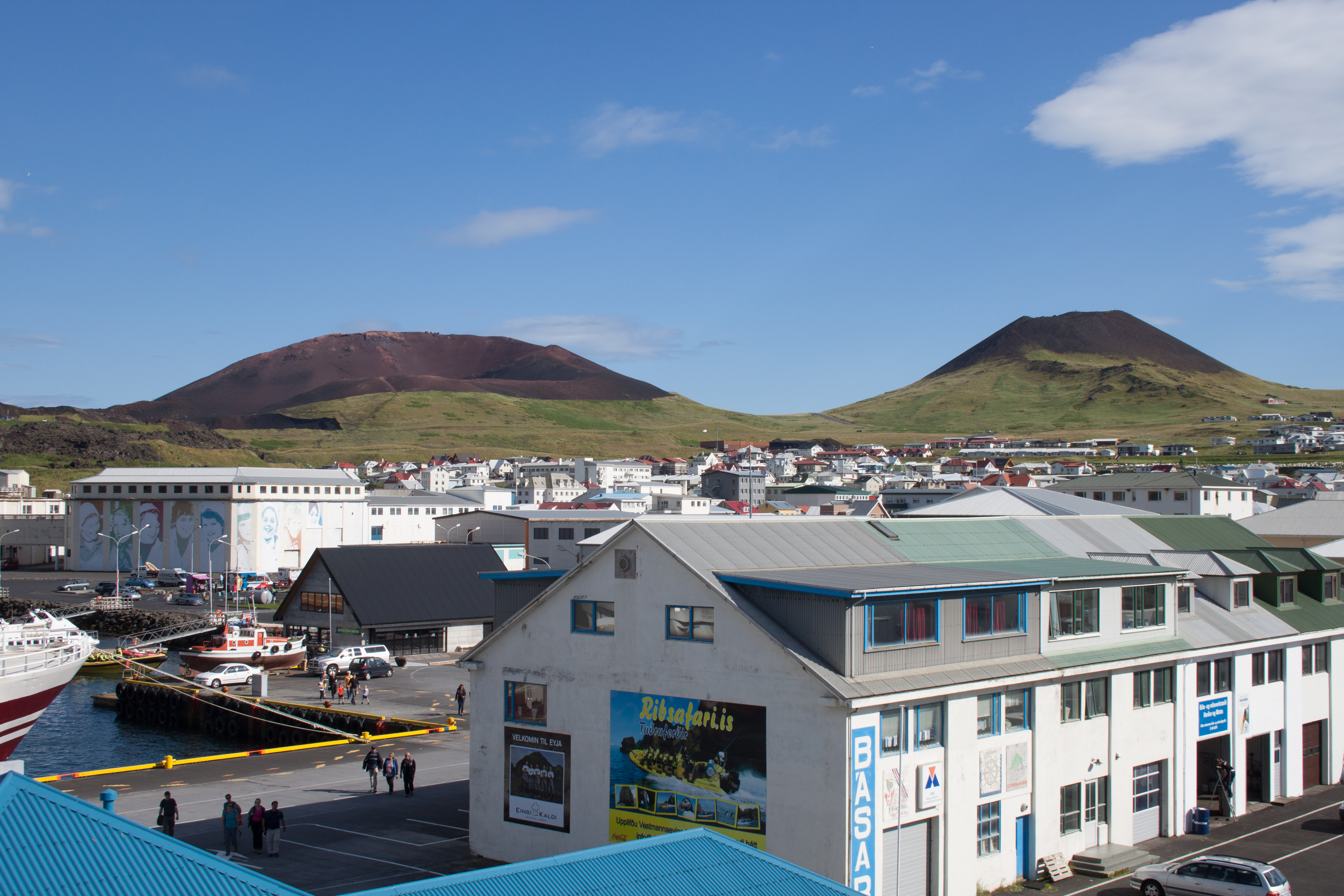 Vestmannaeyjar settlement